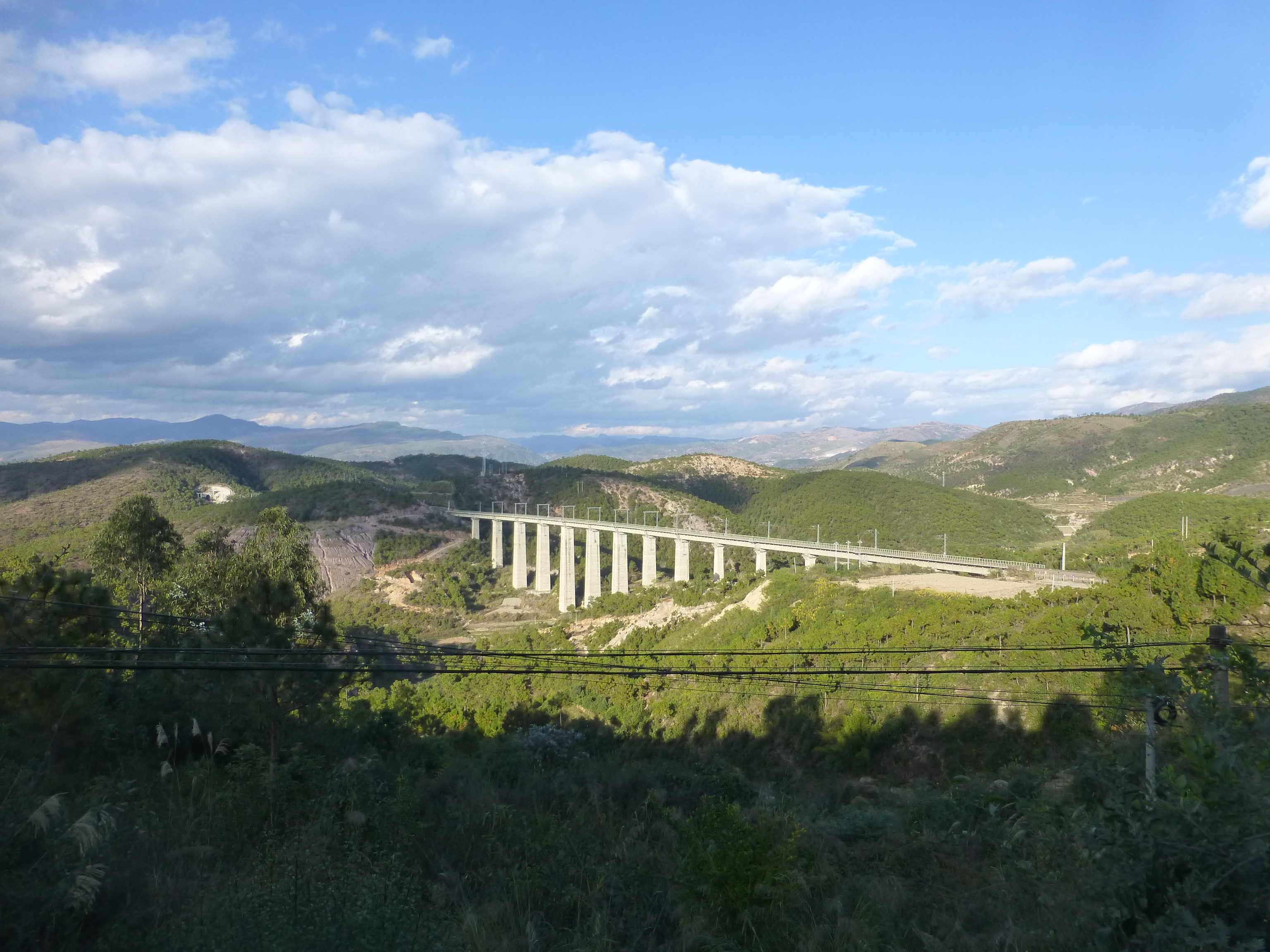 A section of the Yuxi-Mengzi Railway north of Yema Village (Lihaozhai township, Jinshui County, Yunnan), seen from Hwy S214. At the northern (left) end of the railway section visible in this photo the tracks enter the Xiujia'ao Tunnel (徐家垇隧道).